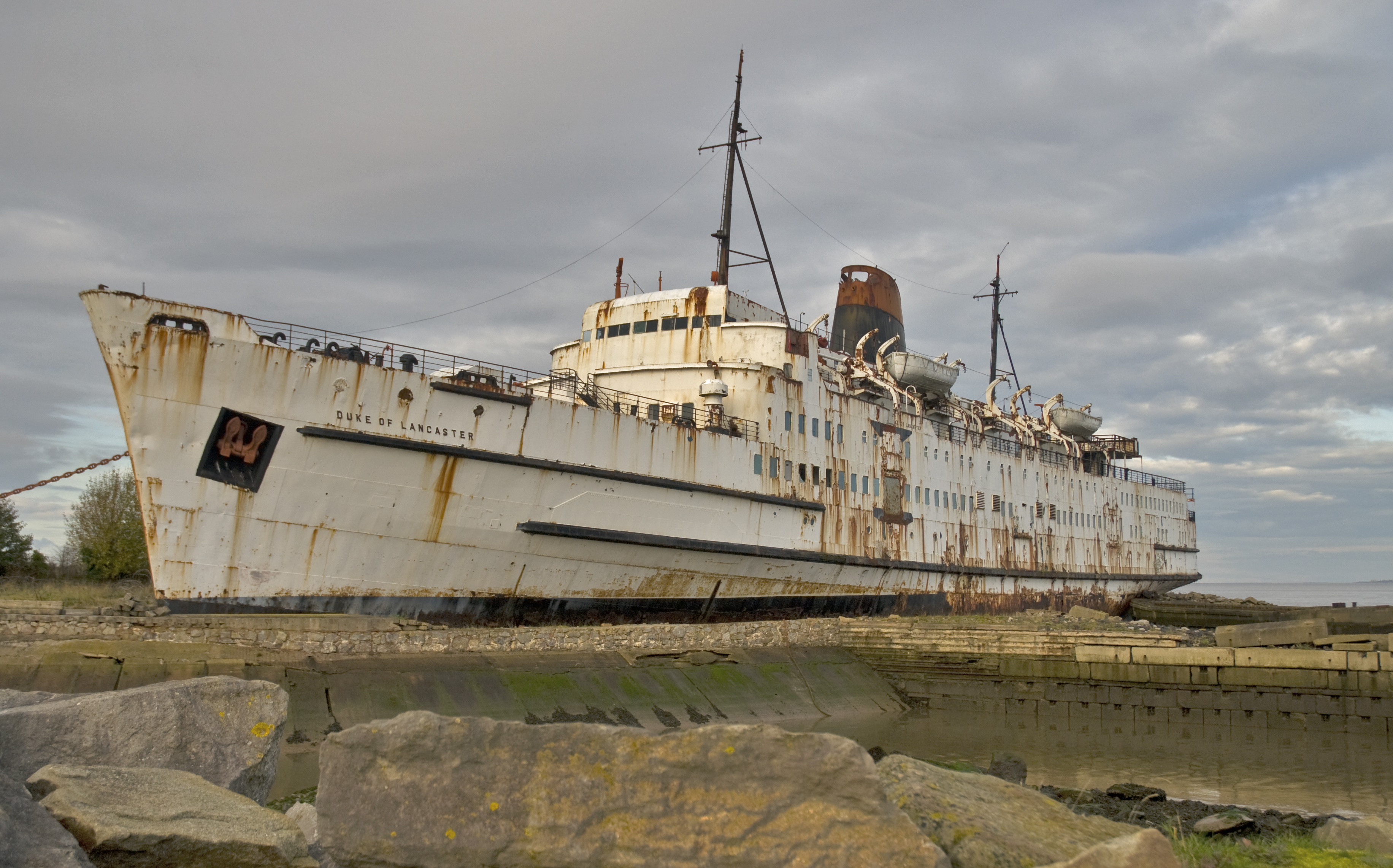 [1] On August 10th, 1979, a former Sealink passenger ferry called the "Duke of Lancaster" was beached in North Wales with the intention of turning it into a floating leisure and retail complex but the project never achieved it’s full potential.